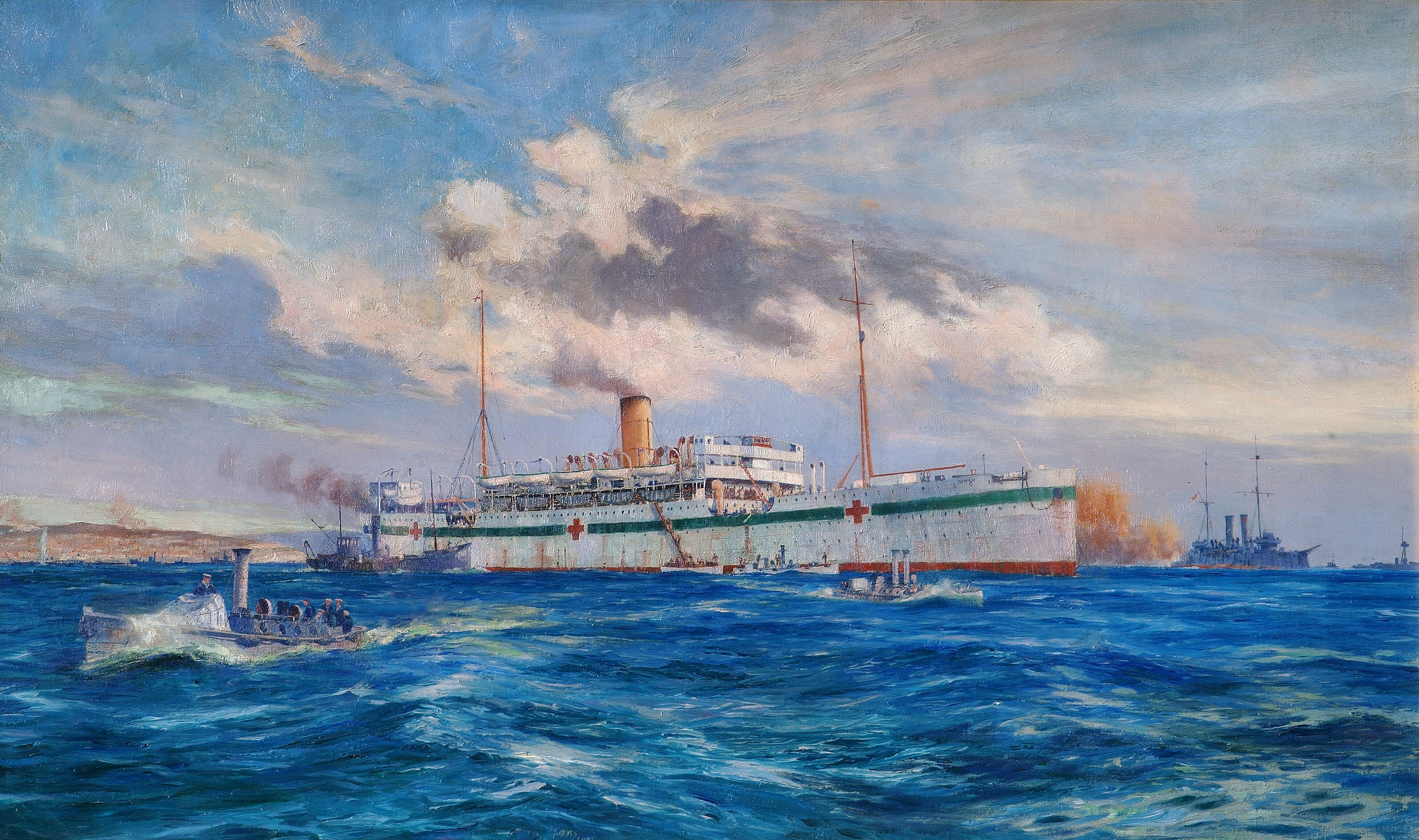 Rn Hospital Ship Somali off Cape Helles, 1915 - walking cases coming on board image: The Royal Navy hospital ship Somali, painted in white and marked with red cross symbols, moored at sea off Cape Helles on the Gallipoli peninsular. There are smaller vessels around her, as well as a Royal Navy warship in the background. Land is visible in the background to the left.